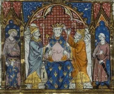 Coronnation of Philip V the Long, king of France. (Bibliothèque nationale de France, Français 2615, fol. 280v)